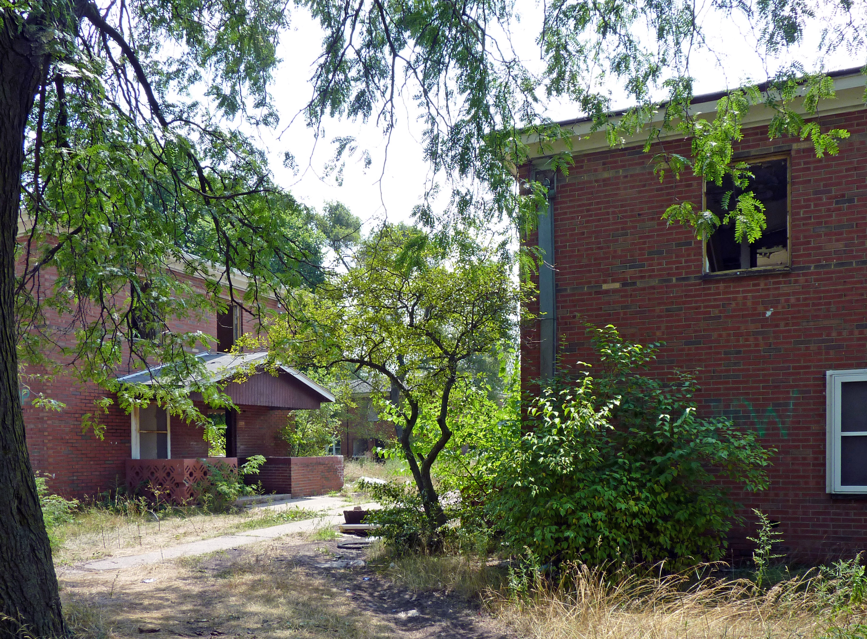 Public housing in Gary, Indiana, which now suffers from a tremendous surplus of housing. At least someone bothered to put up a fence around it. One of the safer places I've taken potty breaks, I'm sure.